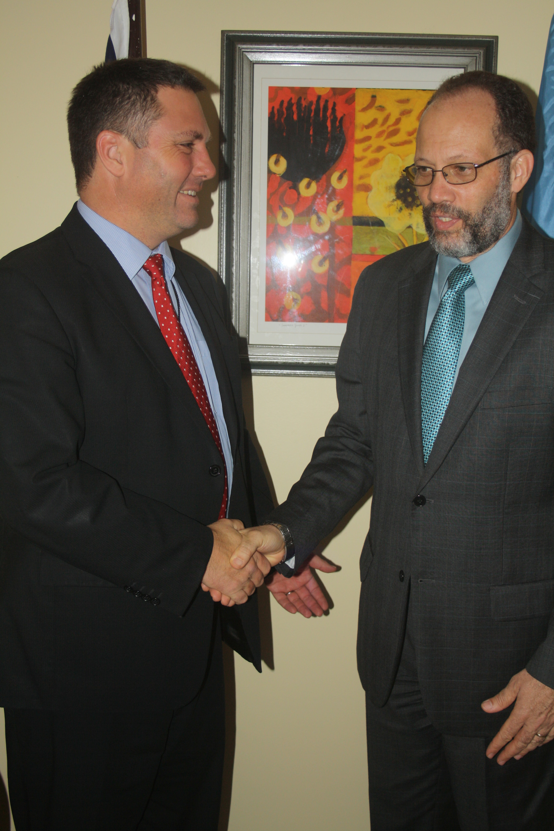 Richard Marles (left) meets Irwin LaRocque (right) in Suriname in May 2012